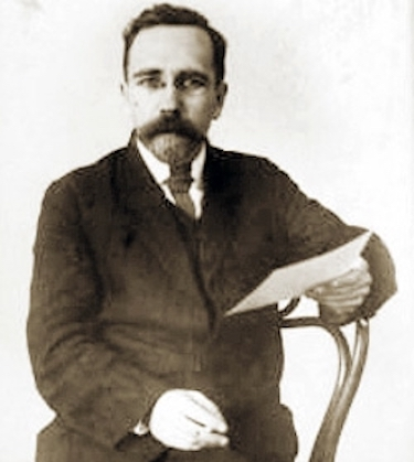 Cropped version of File:1918 Lev Kamenev.jpg